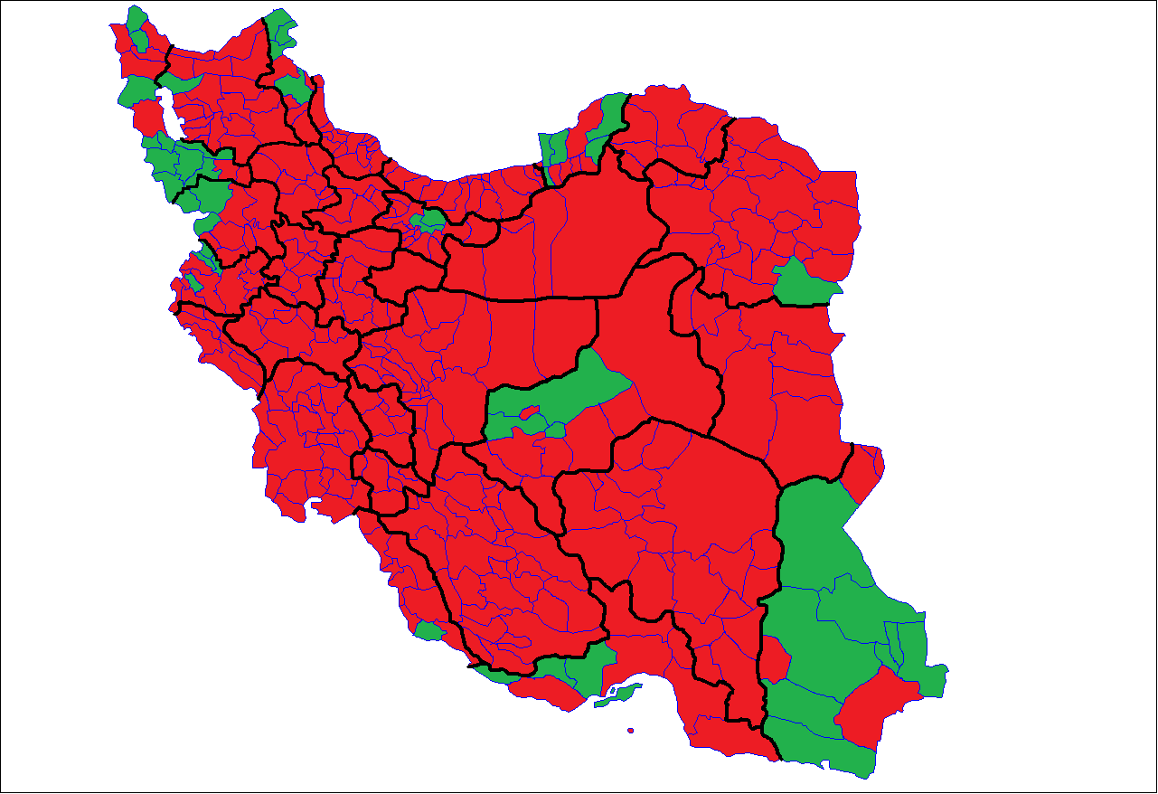 Results of the en:2009 Iranian elections per district. Red are the districts iwth a majority of votes for Mahmoud Ahmadinejad and green a majority for Mir-Hussein Mousavi